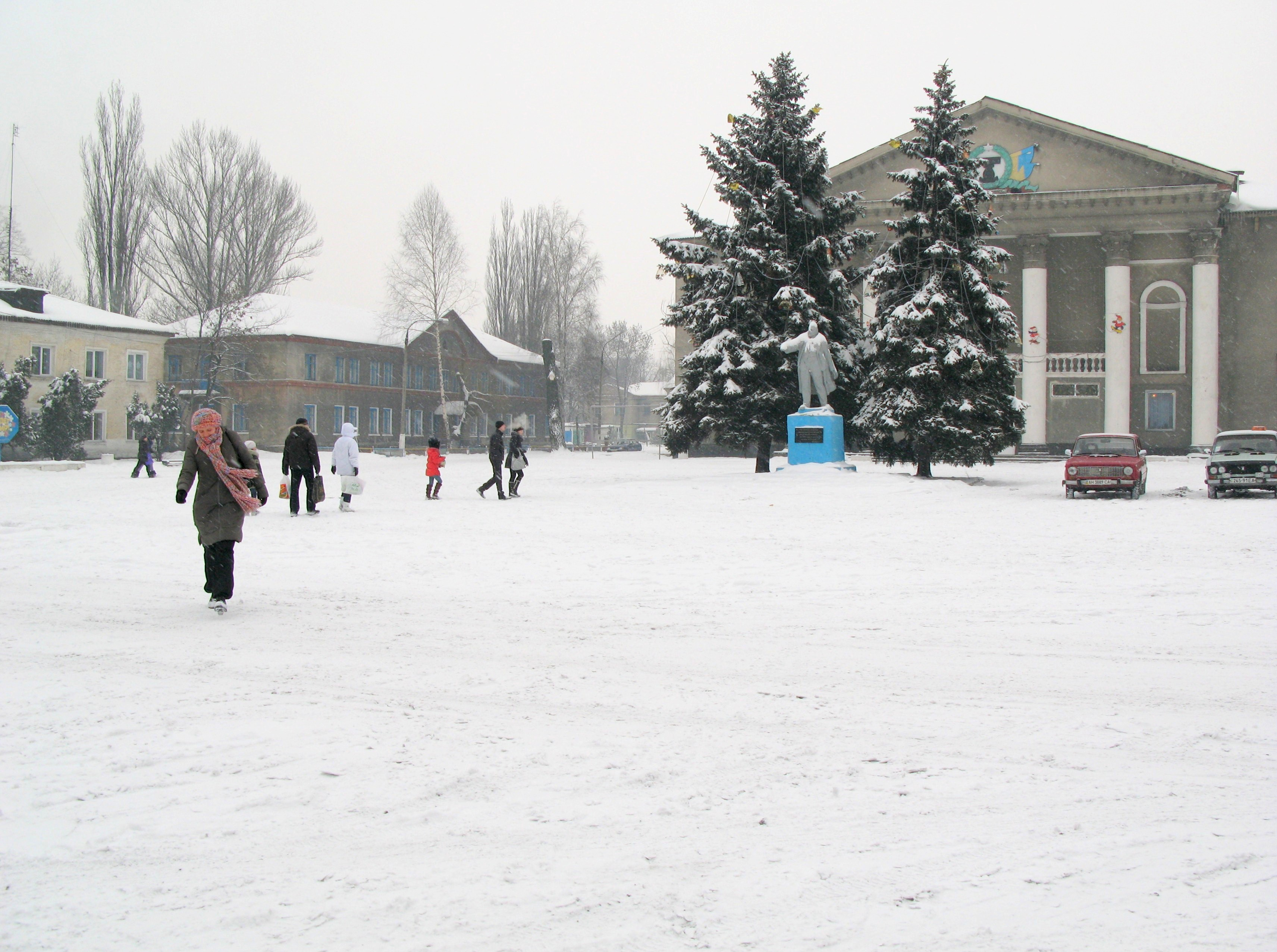 Lenin Square, Bilozerske, Donetsk Oblast, Ukraine